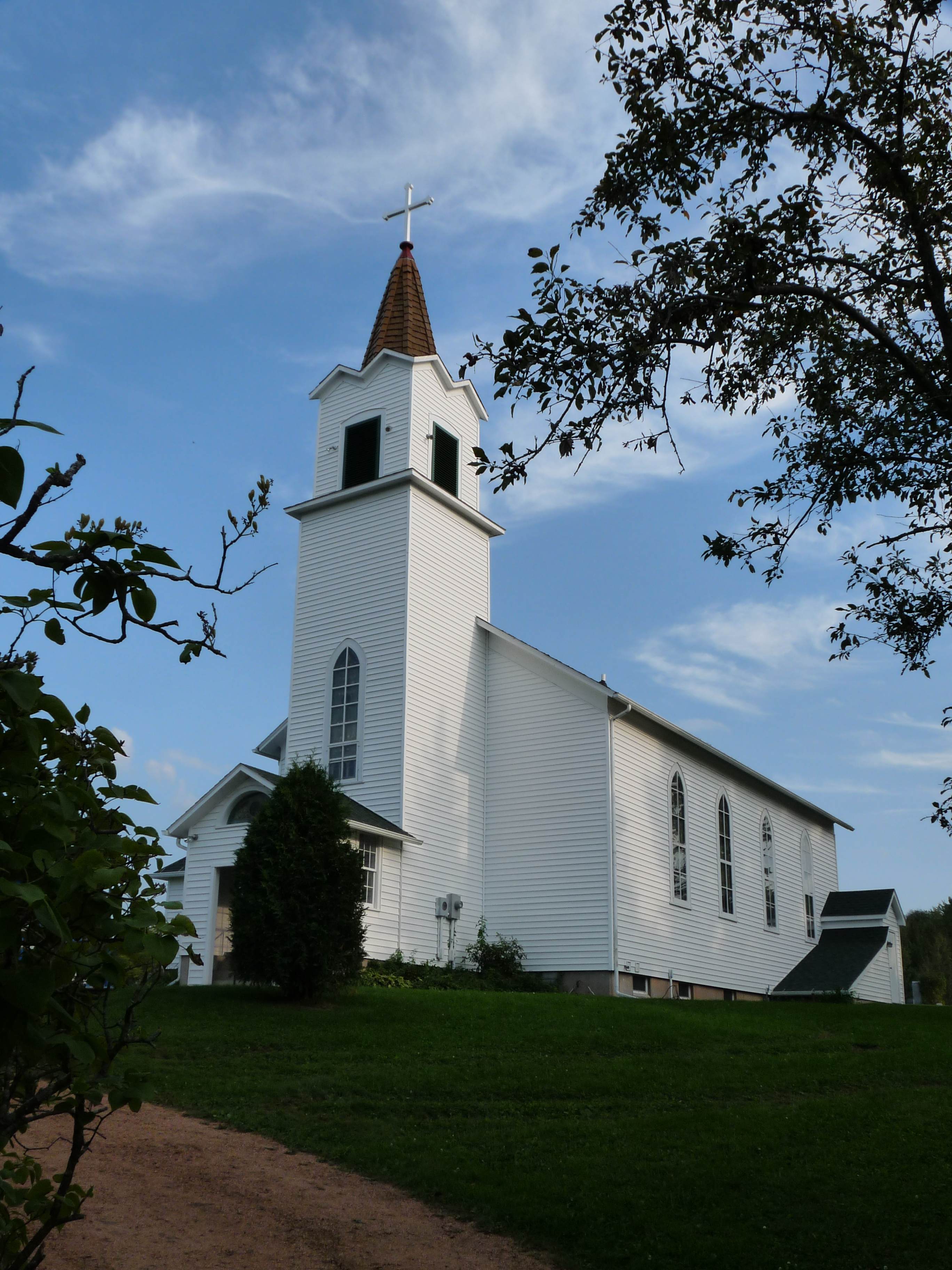 St. Anne's Catholic Church. This rural church, built 1888, is a few miles east of Chelsea, Wisconsin. It is on the National Register of Historic Places.